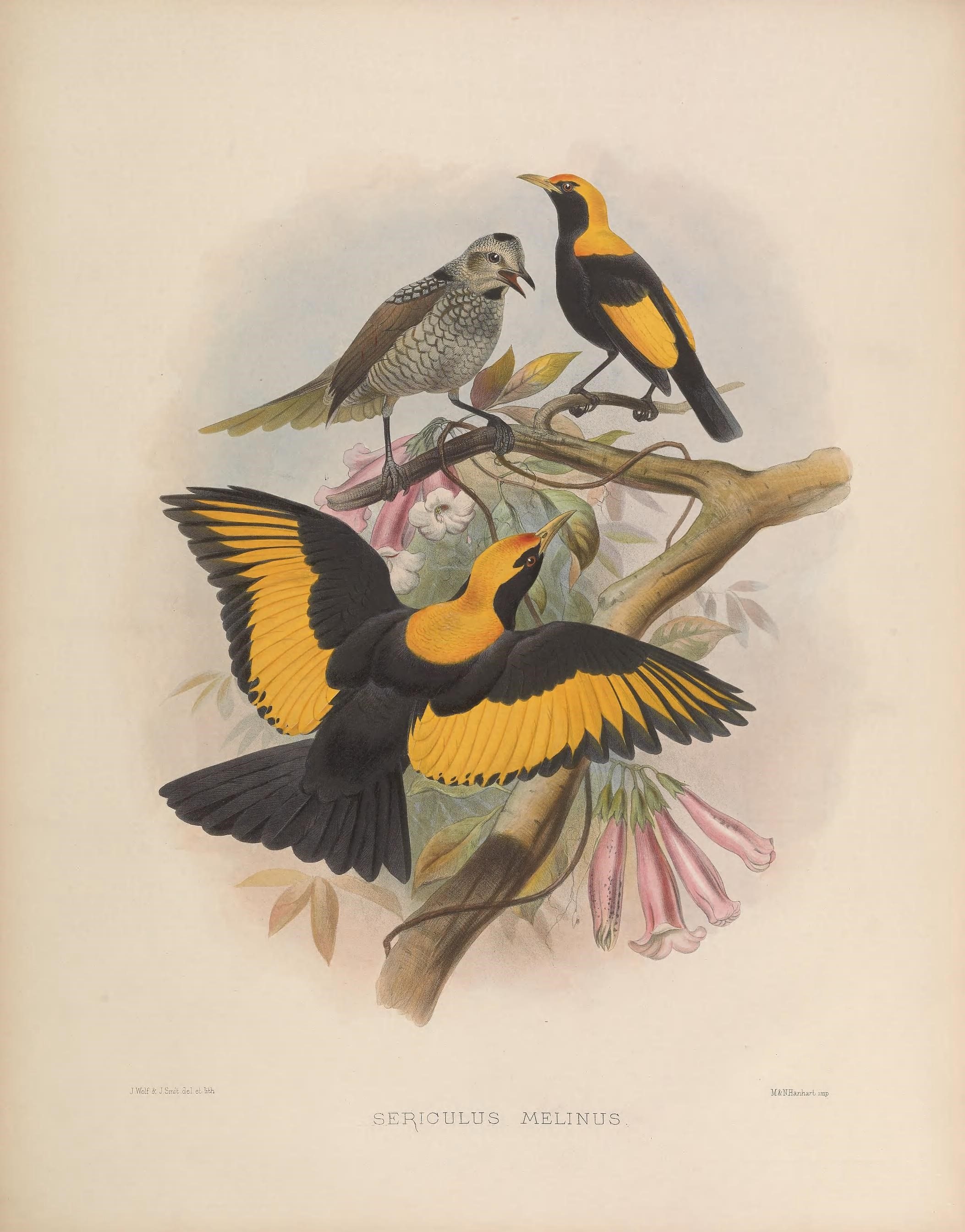 Drawing of 1873